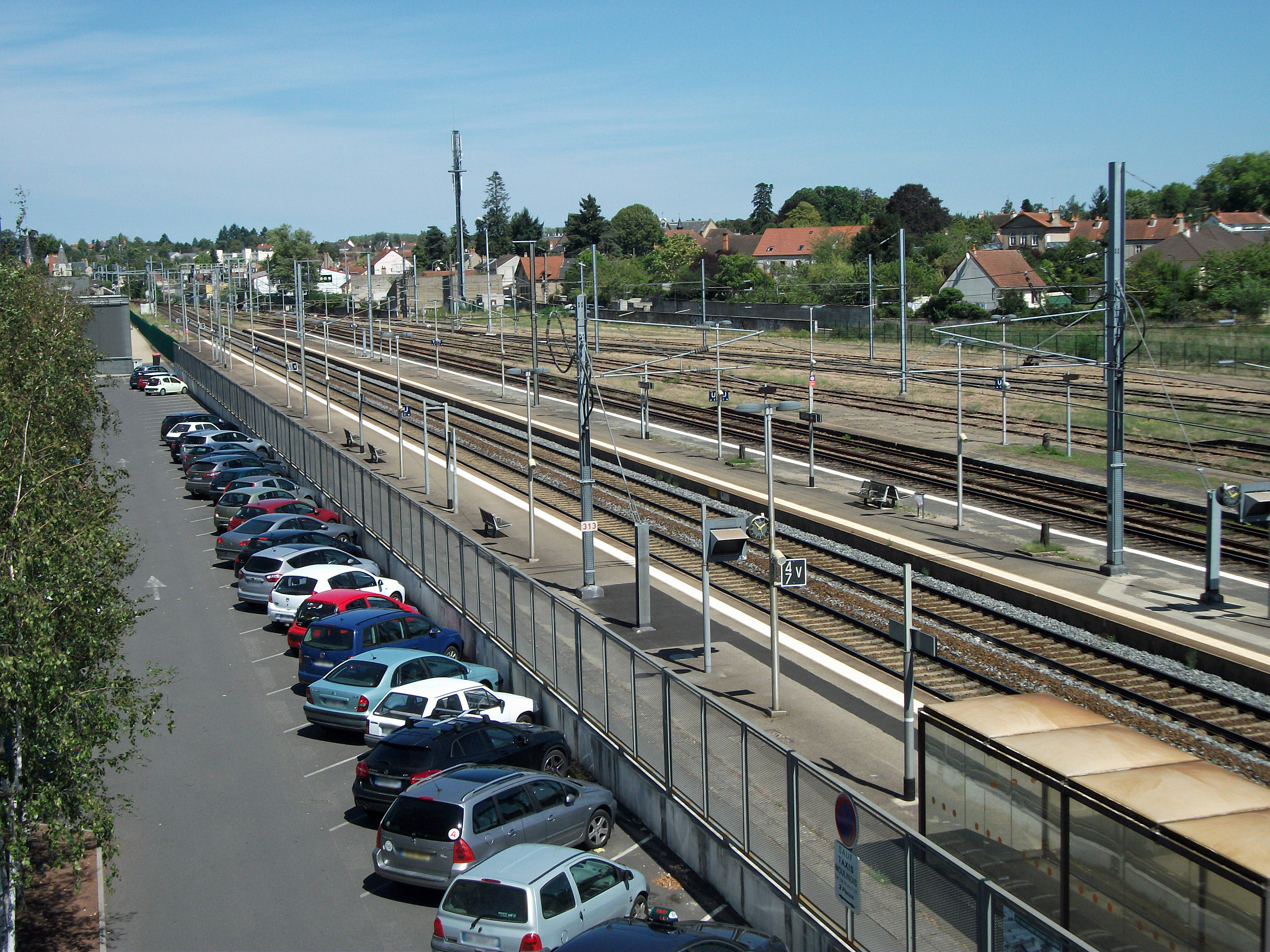 Part of parking and bundle of railway lines in Moulins-sur-Allier railway station, view to the north from footbridge, Moulins side [8848]